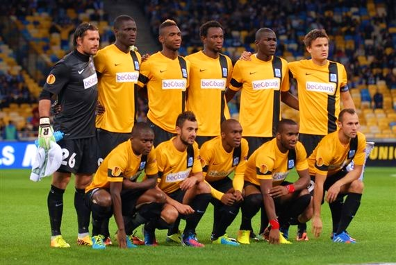 Genk 2013